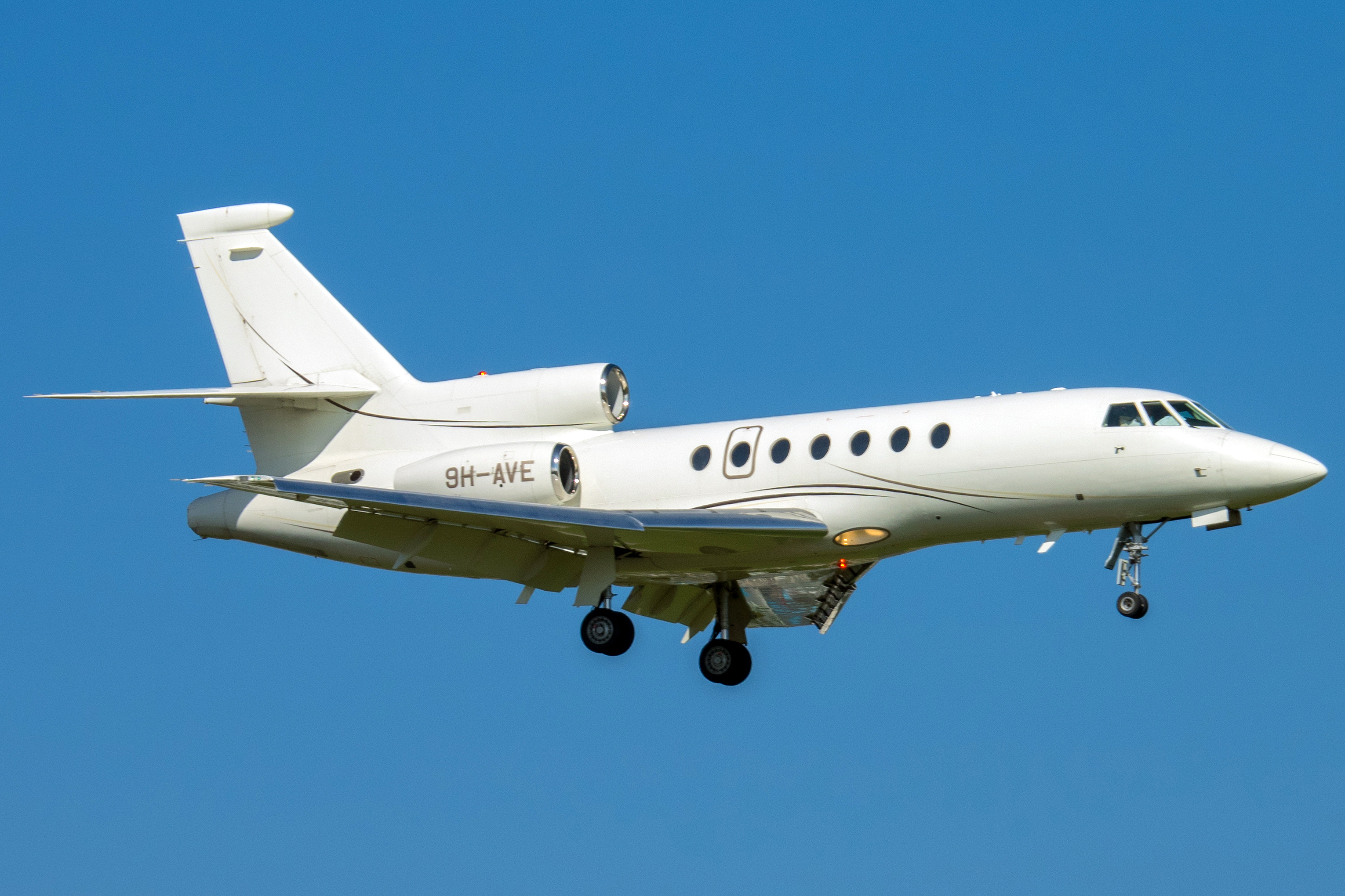 Geneva International Airport